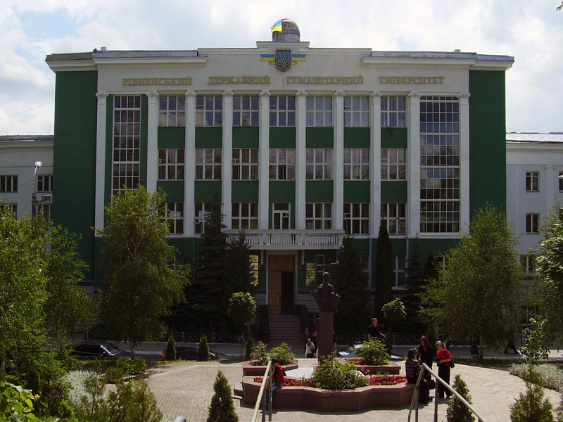 Rivne State Humanities University, educational corps #2.